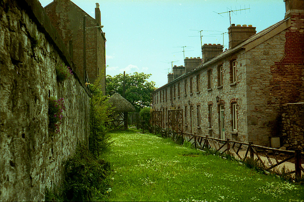 Tigh an Deirce, Sraid Nioclas, Luimneach, togtha sa bhlian 1982 ag Sean an Scuab